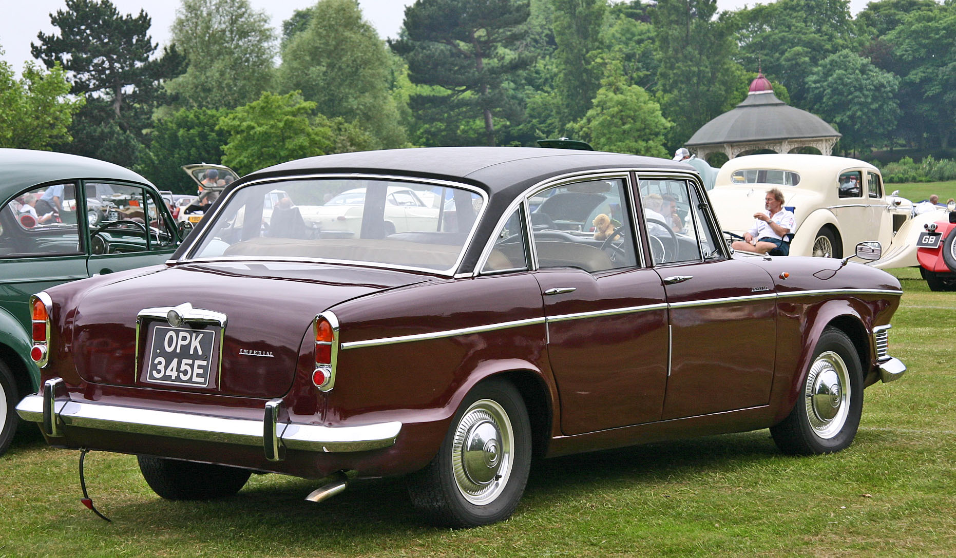 Humber Imperial, the luxurious version of the Humber Super Snipe Series V (1964-67)